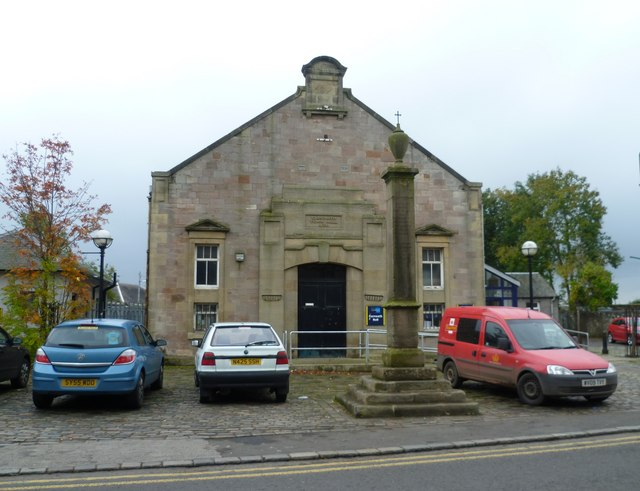 Mercat cross in the Lanarkshire village of Carnwath.